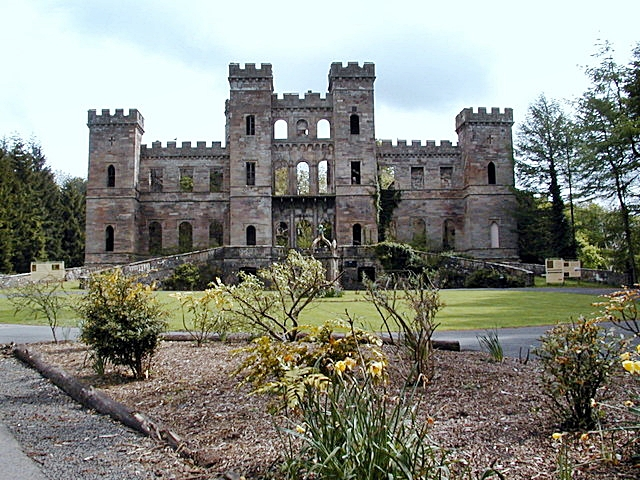 Loudoun Castle ruins, near Galston, Ayrshire, Scotland. A Category A listed building constructed c.1807 to designs by Archibald Elliot for Flora Mure-Campbell, Marchioness of Hastings